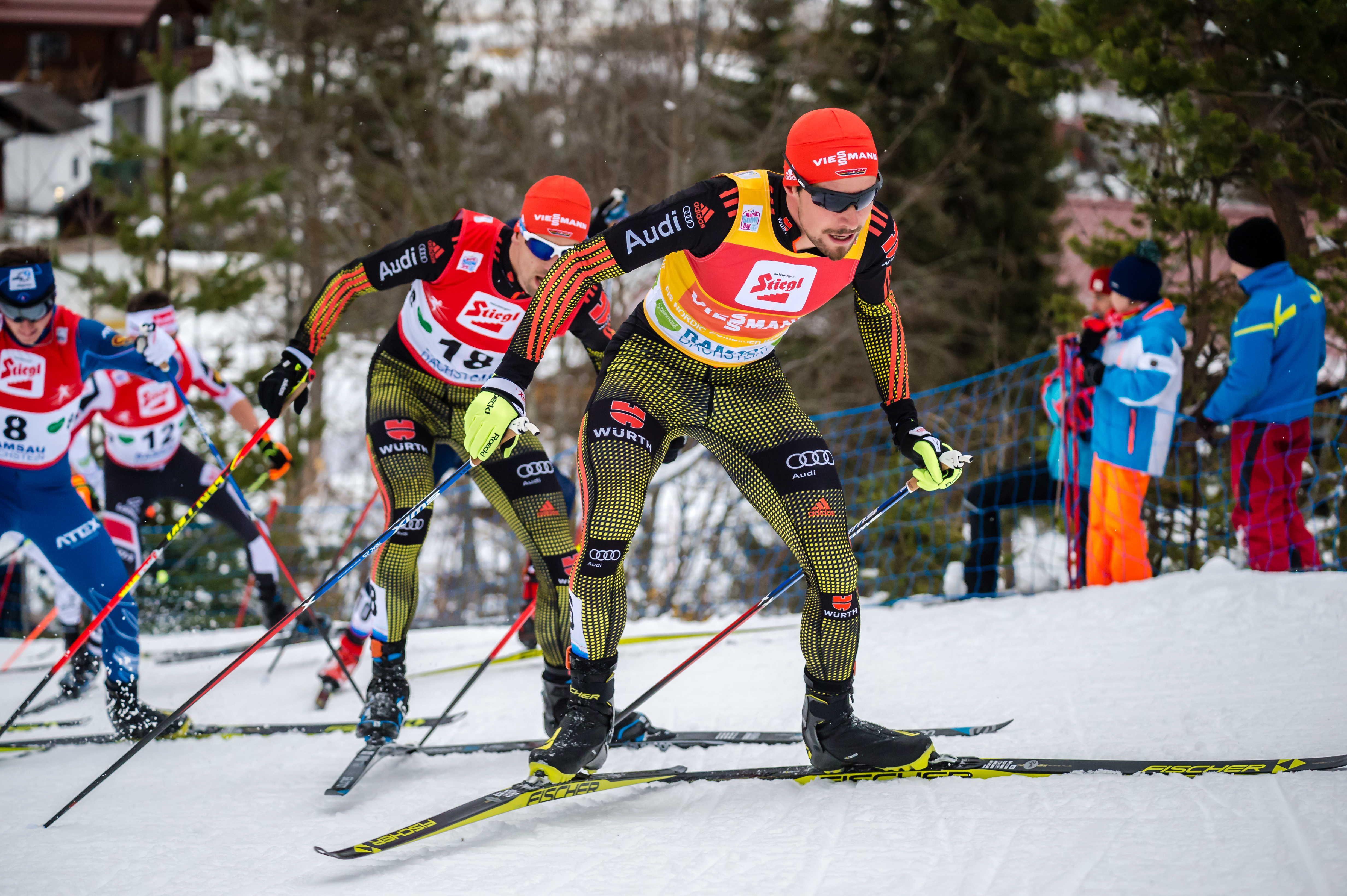 10km Gundersen, 2016/12/18, picture shows Johannes Rydzek and Björn Kircheisen